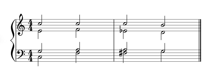 half cadencein C-major with F#°7 to G